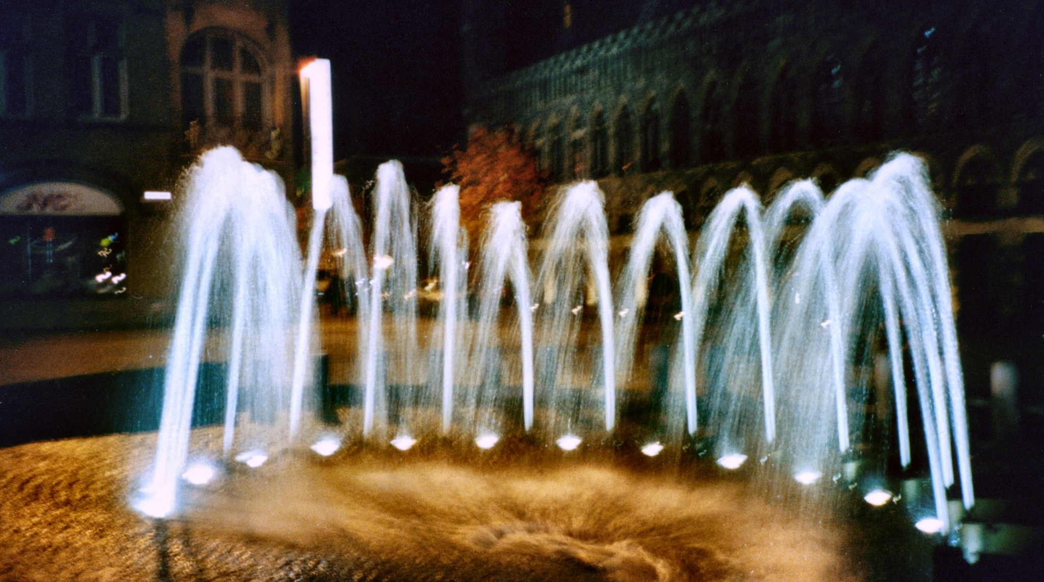 Night shot of the fountain in the Grote Markt outside of the Cloth Hall in Ieper/Ypres, Belgium.